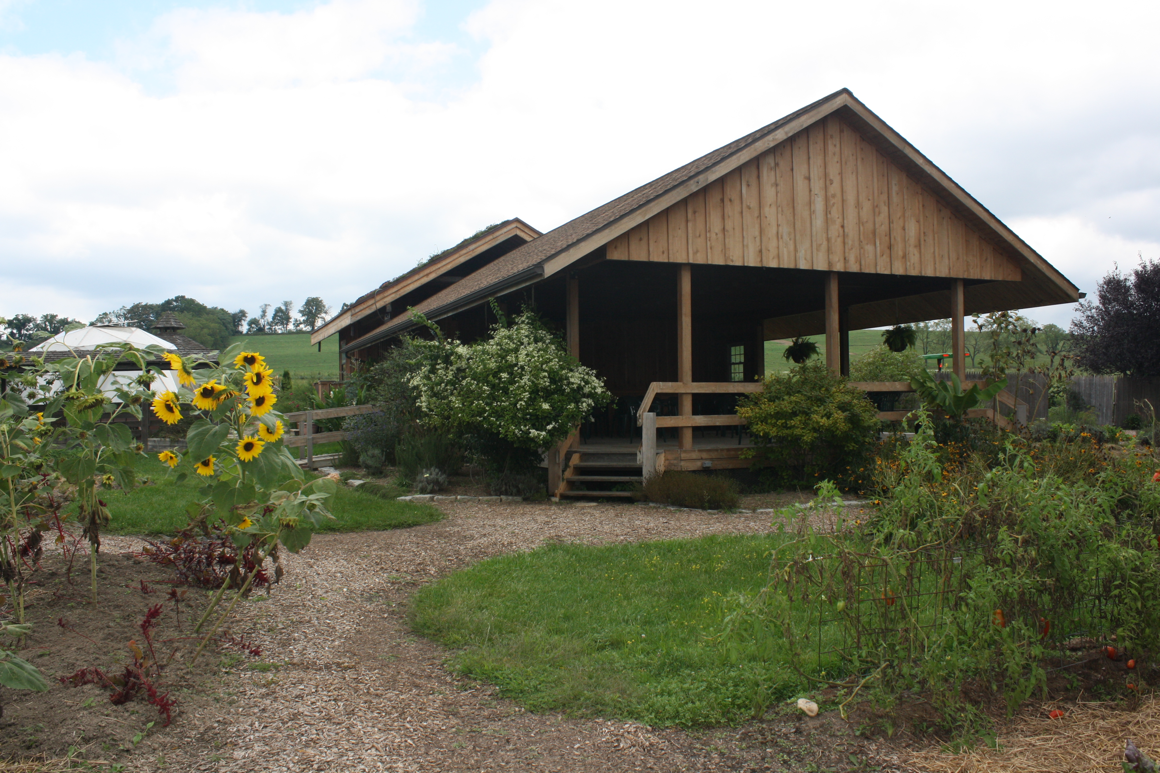 Test Garden (Organic Gardening) at Rodale Institute (Siegfried's Dale Farm), Maxatawny Township, Berks County, Pennsylvania.